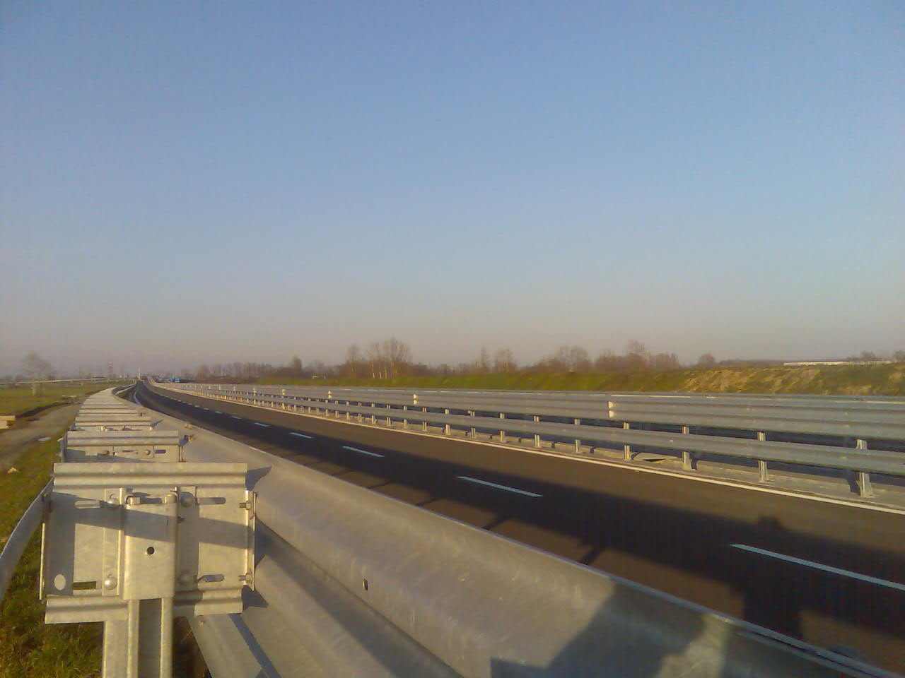 The west carriageway of the so-called Peduncolo, part of the future expressway connection between the river port of Cremona and A21 motorway.